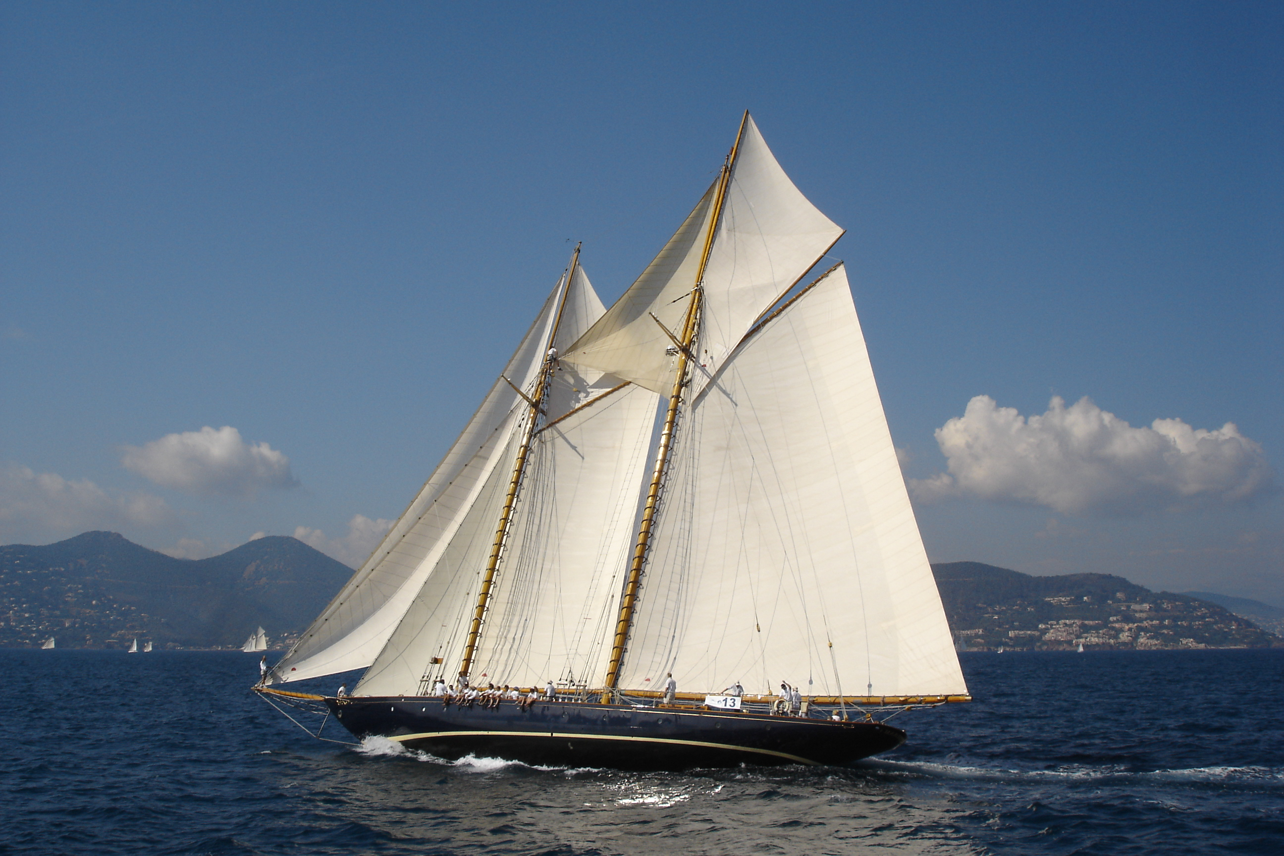 The schooner Mariette racing in the 2006 Régates Royales, in Cannes.